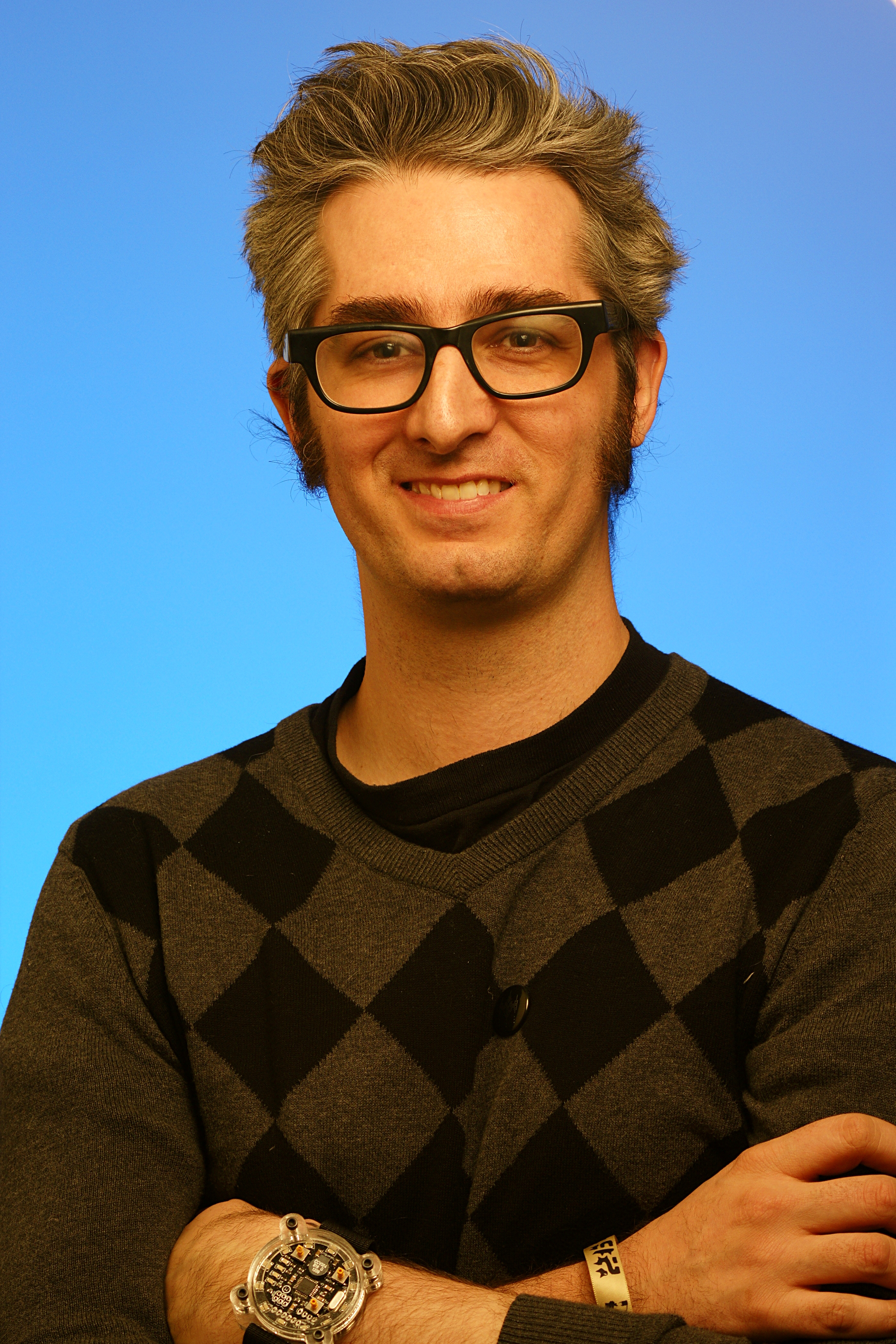 Bre Pettis at the 26th Chaos Communication Congress